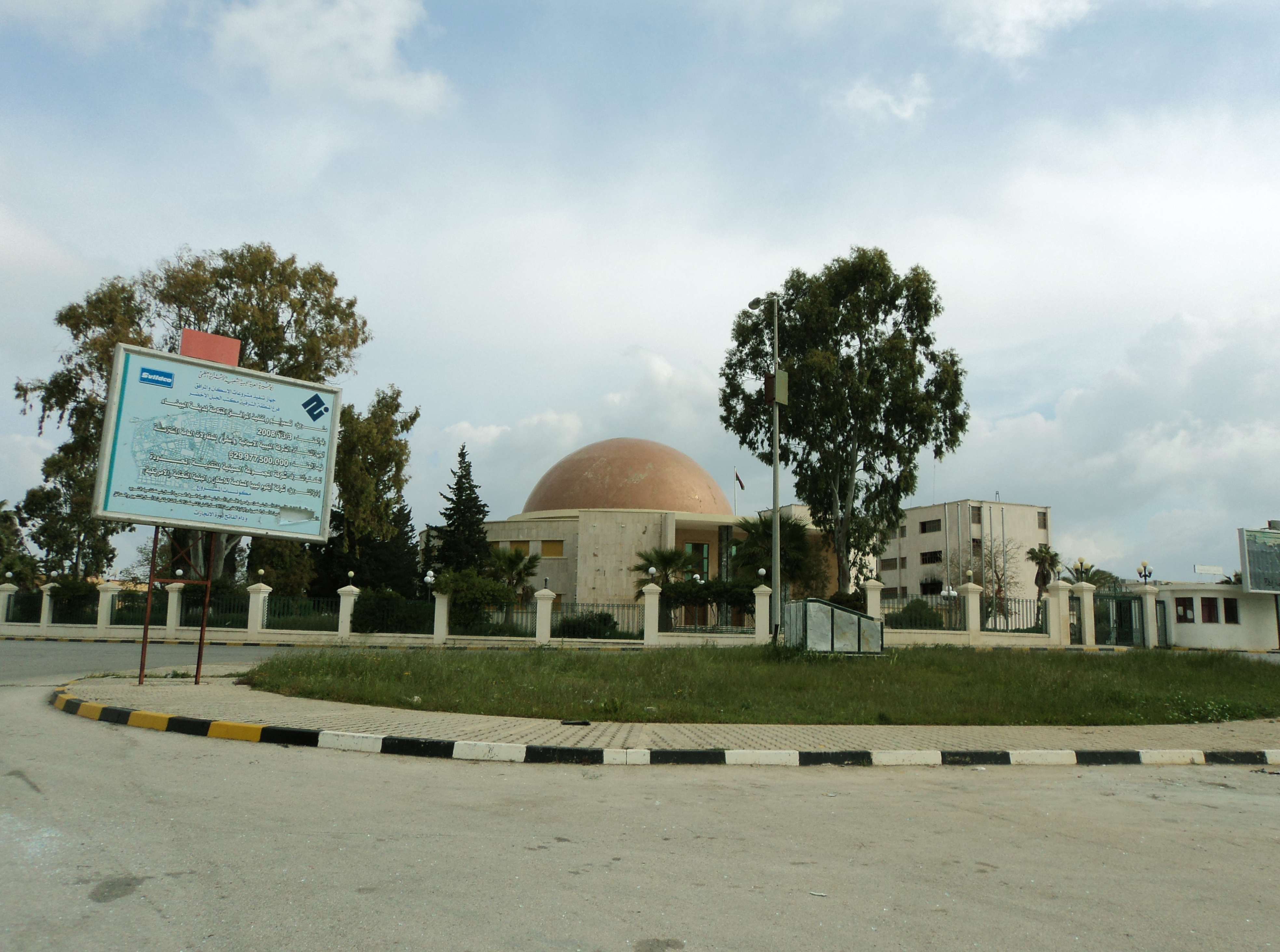 Former Libyan Parliament Hall - in the northeastern city of Bayda, Libya.